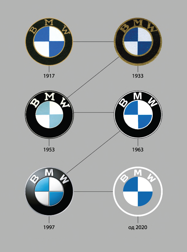 BMW logo evolution (in Serbian)